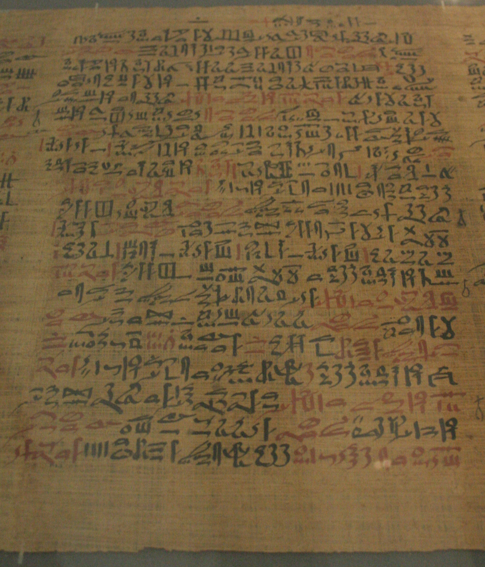 Papyrus Ebers, column 40